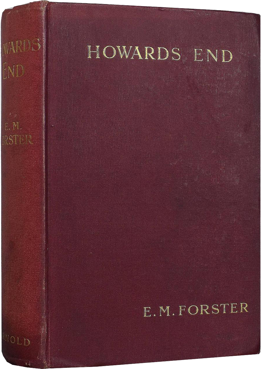 Cover of the first edition of Howards End by E.M. Forster (pub. Edward Arnold, London, 1910). To be used exclusively to illustrate that article. From